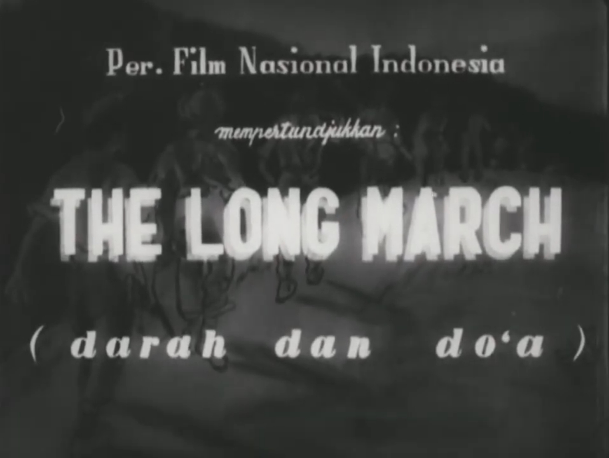 Screenshot of the title card for the 1950 film Darah dan Doa